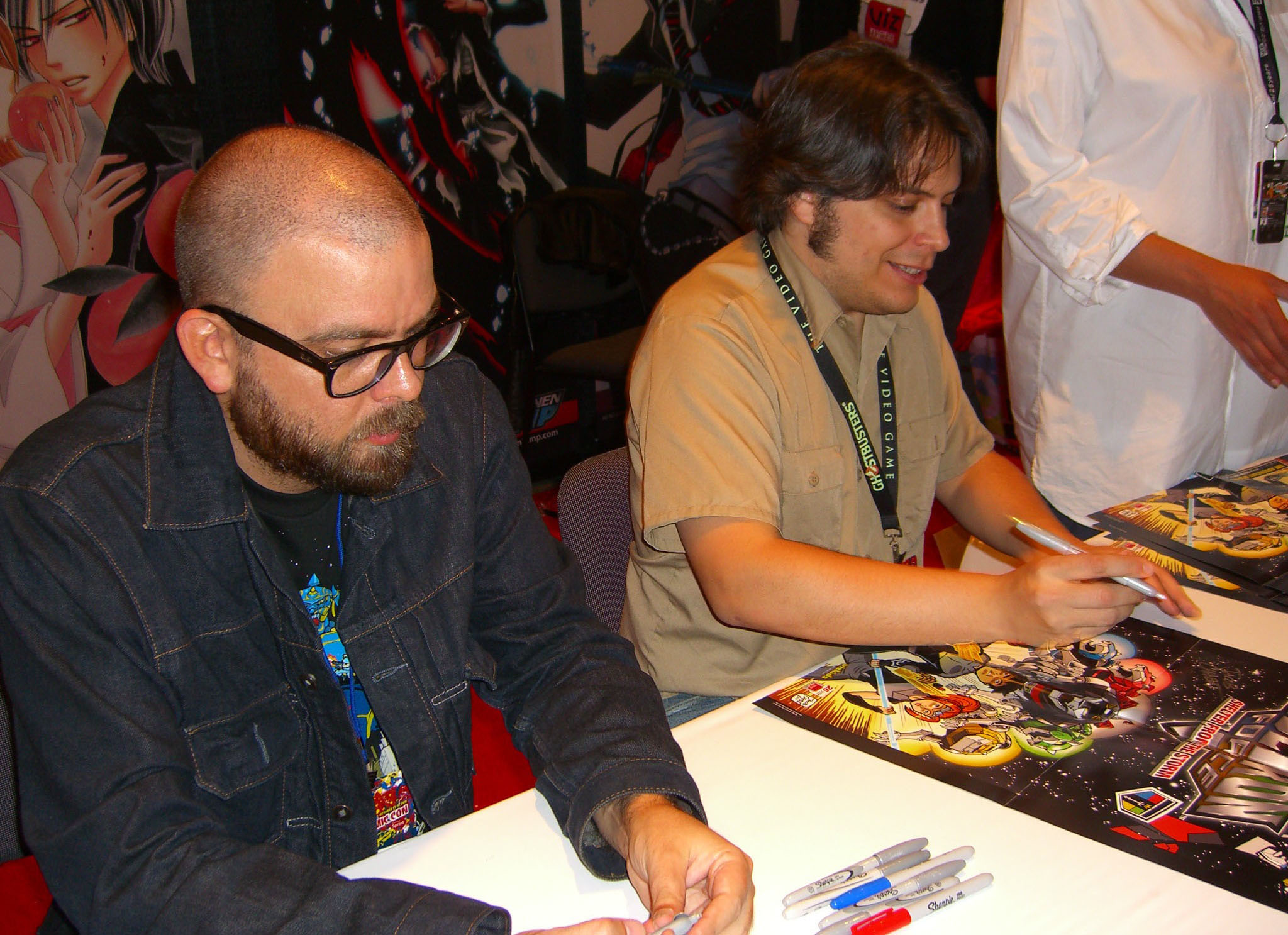 Comics creators Brian Smith and Jacob Chabot signing Voltron posters during an October 16, 2011 appearance at the New York Comic Con in Manhattan. This photo was created by Luigi Novi. It is not in the public domain, and use of this file outside of the licensing terms is a copyright violation.